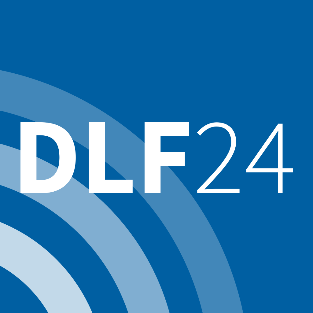 This is the first logo of DLF24, officially used from on March 1st. until April 30th 2017.